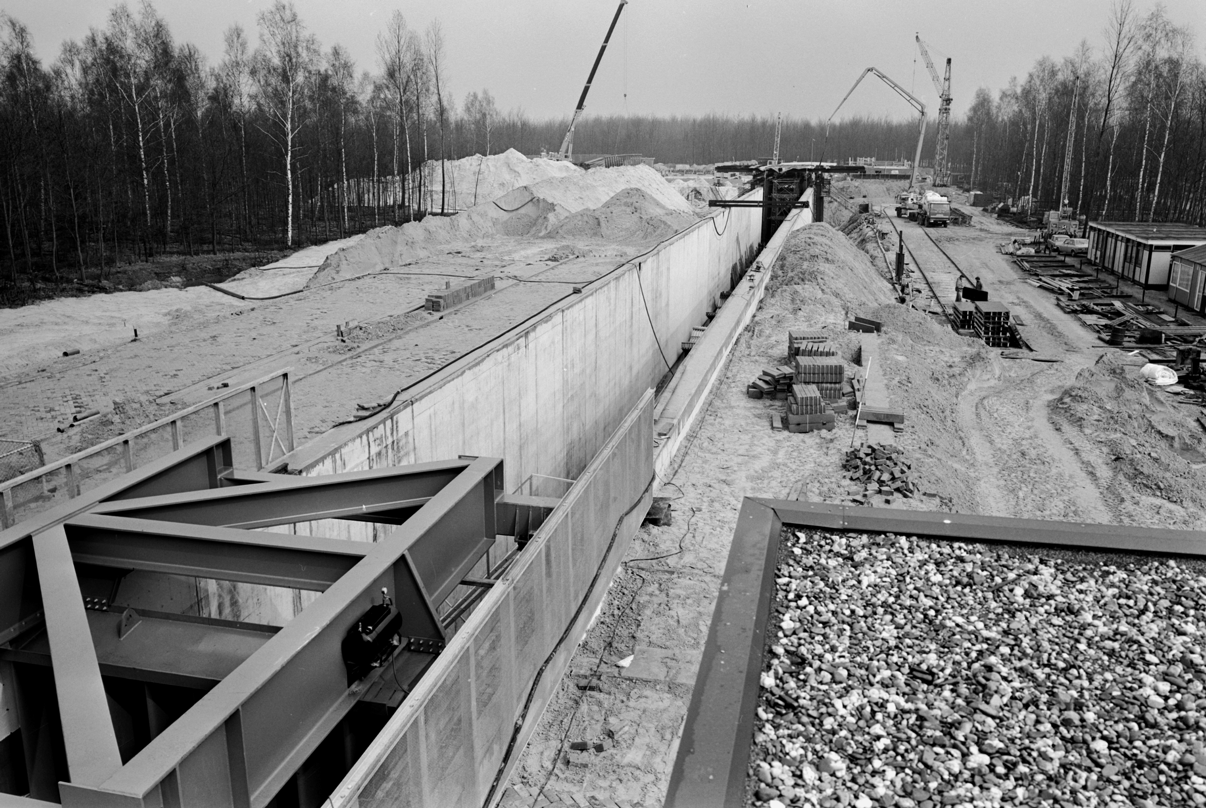 Deltaflume in De Voorst, Netherlands, under construction